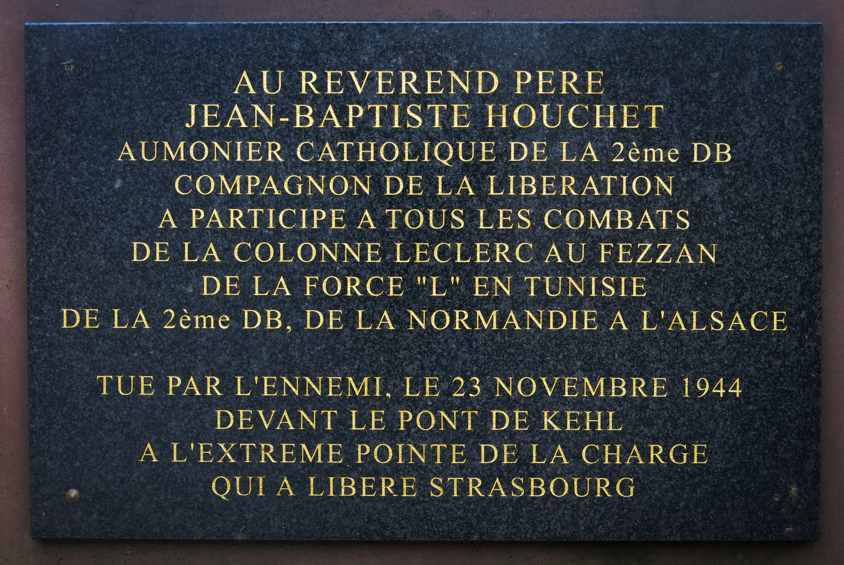 Planque in memory to the RP Jean-Baptiste Houchet near the Sherman tank Cherbourg in the district of the port du Rhin in Strasbourg (Bas-Rhin, France).